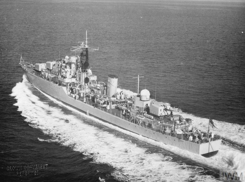 Daring class destroyer HMS Diana